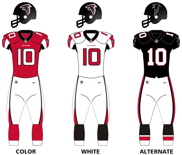 Uniforms for the NFL team, Atlanta Falcons, including the alternate 3rd version.